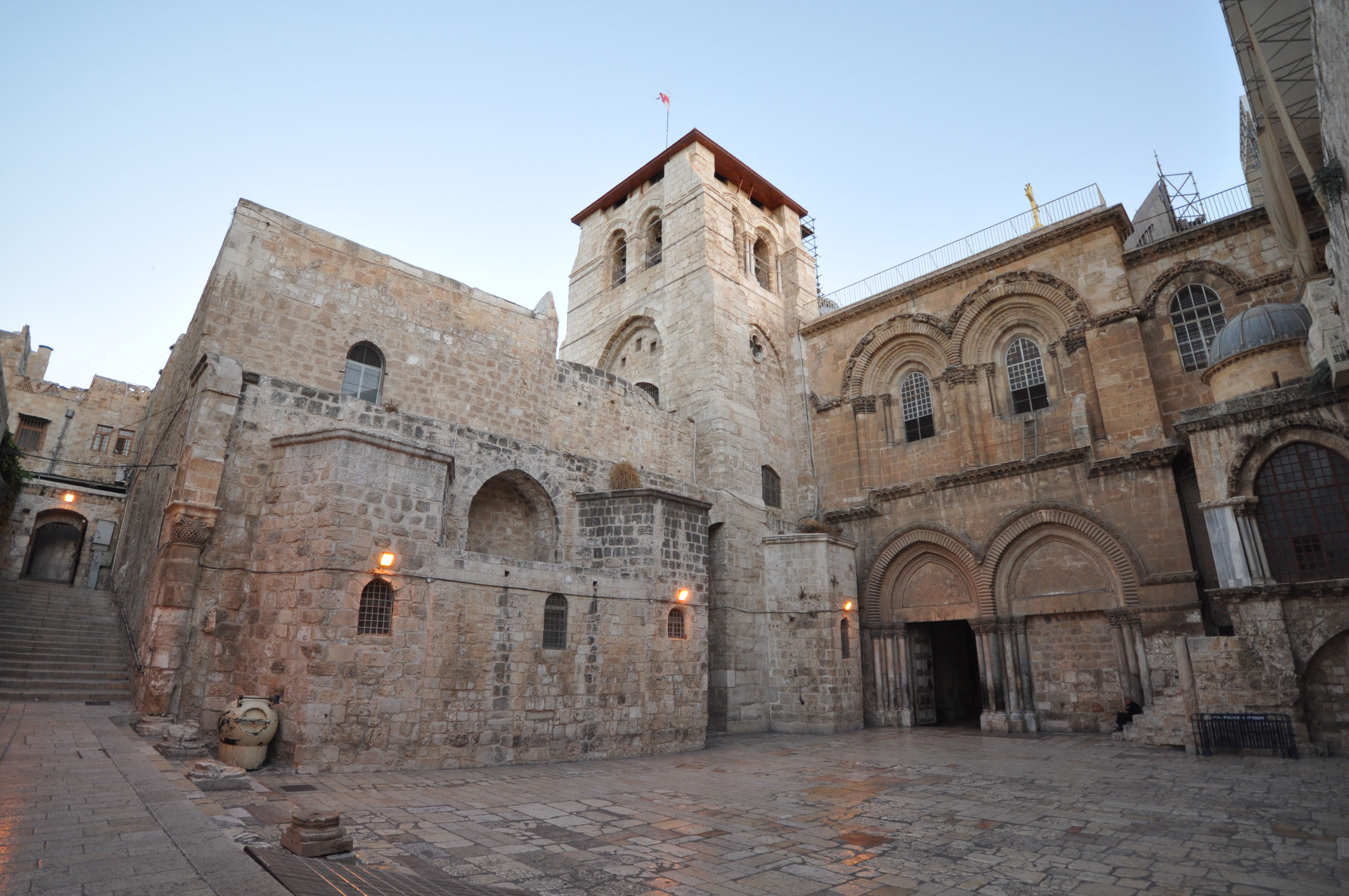 The Church of the Holy Sepulchre, also called the Basilica of the Holy Sepulchre, or the Church of the Resurrection by Eastern Christians, is a church within the Christian Quarter of the walled Old City of Jerusalem. It is a few steps away from the Muristan.